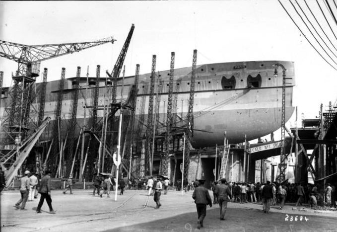 Battleship Courbet in Toulon harbour